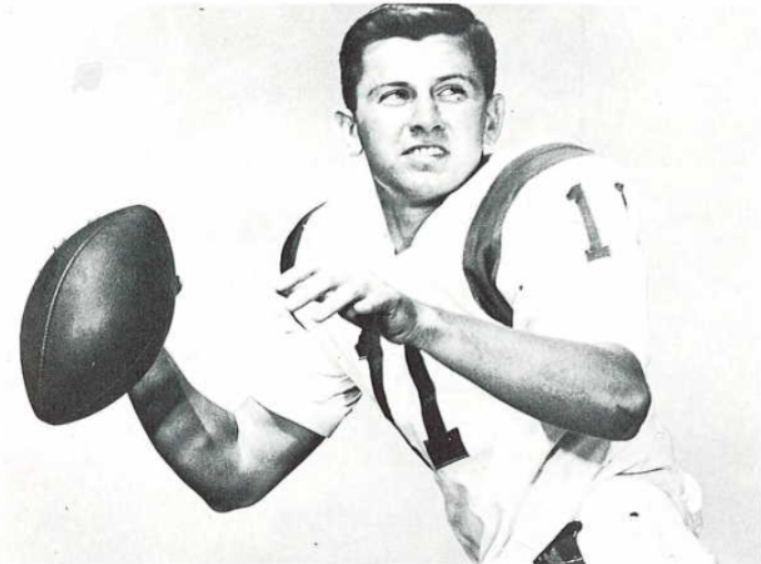 Photograph of Steve Spurrier